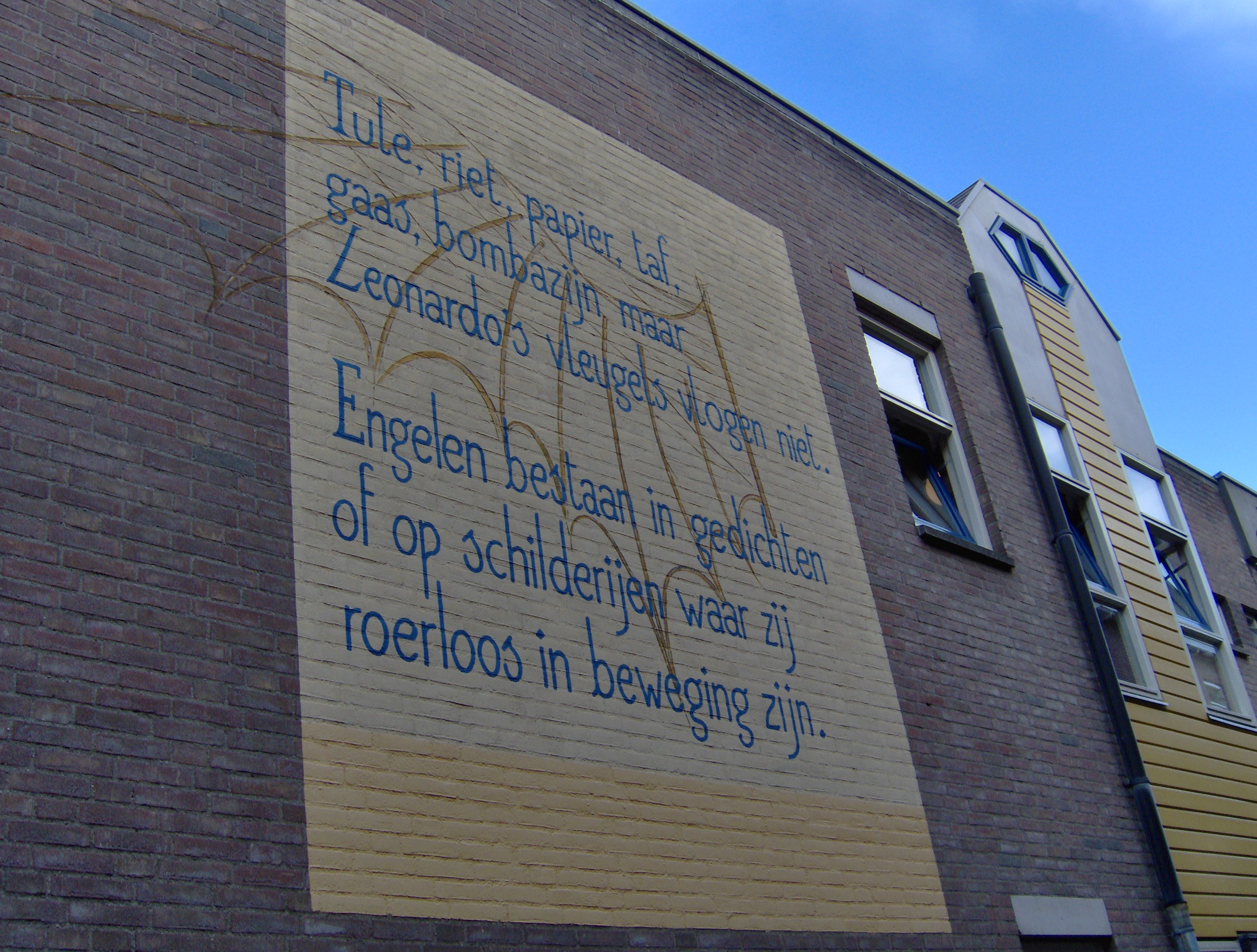 First part of a poem by the Dutch poet J. Bernlef on a wall of the building at Sint Ursulasteeg 28 in Leiden, The Netherlands